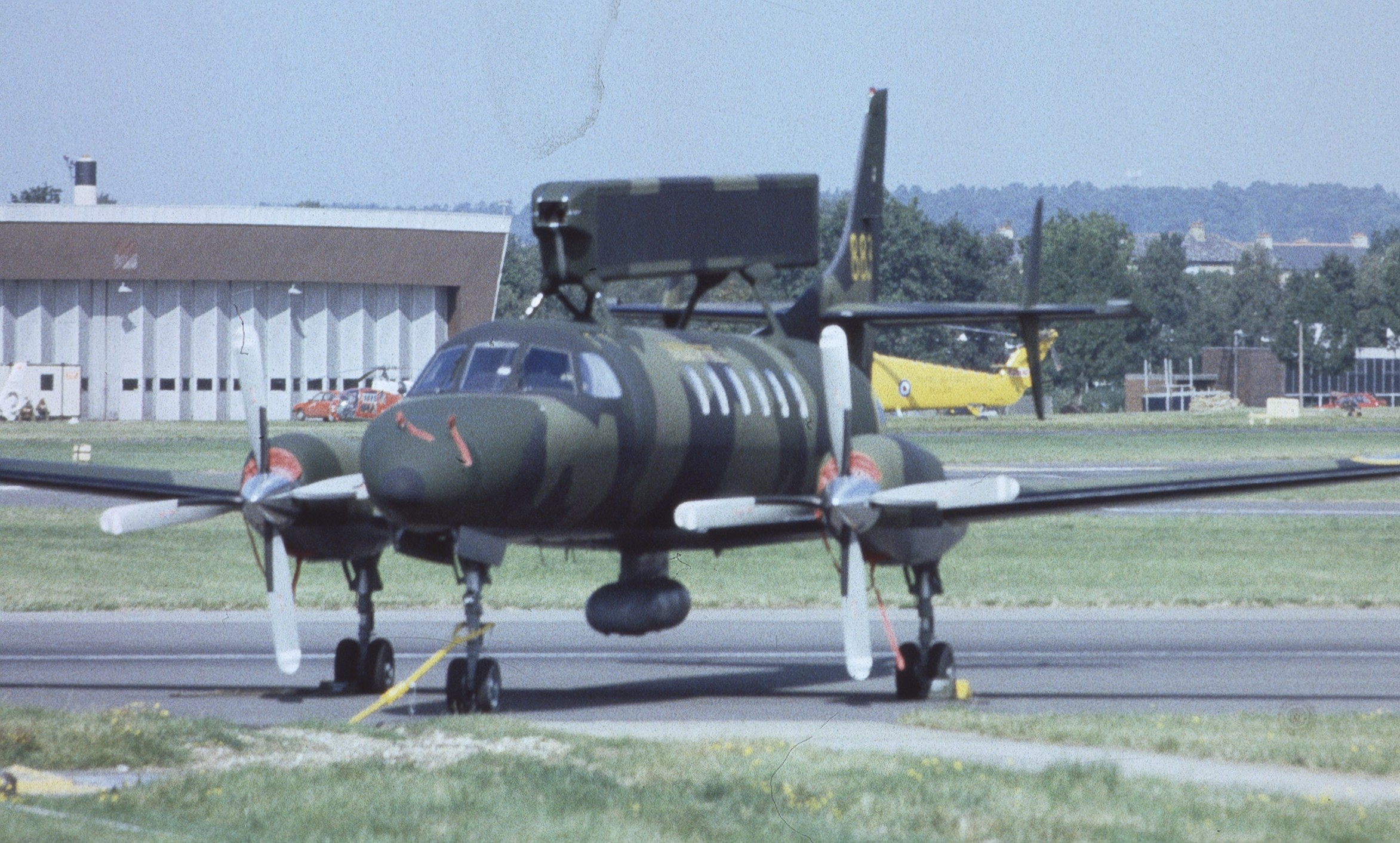 Fairchild Swearingen Tp88 Metro III/AEW (SA-227AC) 88003 / 883 (cn AC-421B) Sweden - Air Force (still operating with OLT - Ostfriesische Lufttransport as D-COLD in2010). Farnborough (FAB / EGLF) UK - England, September 1988